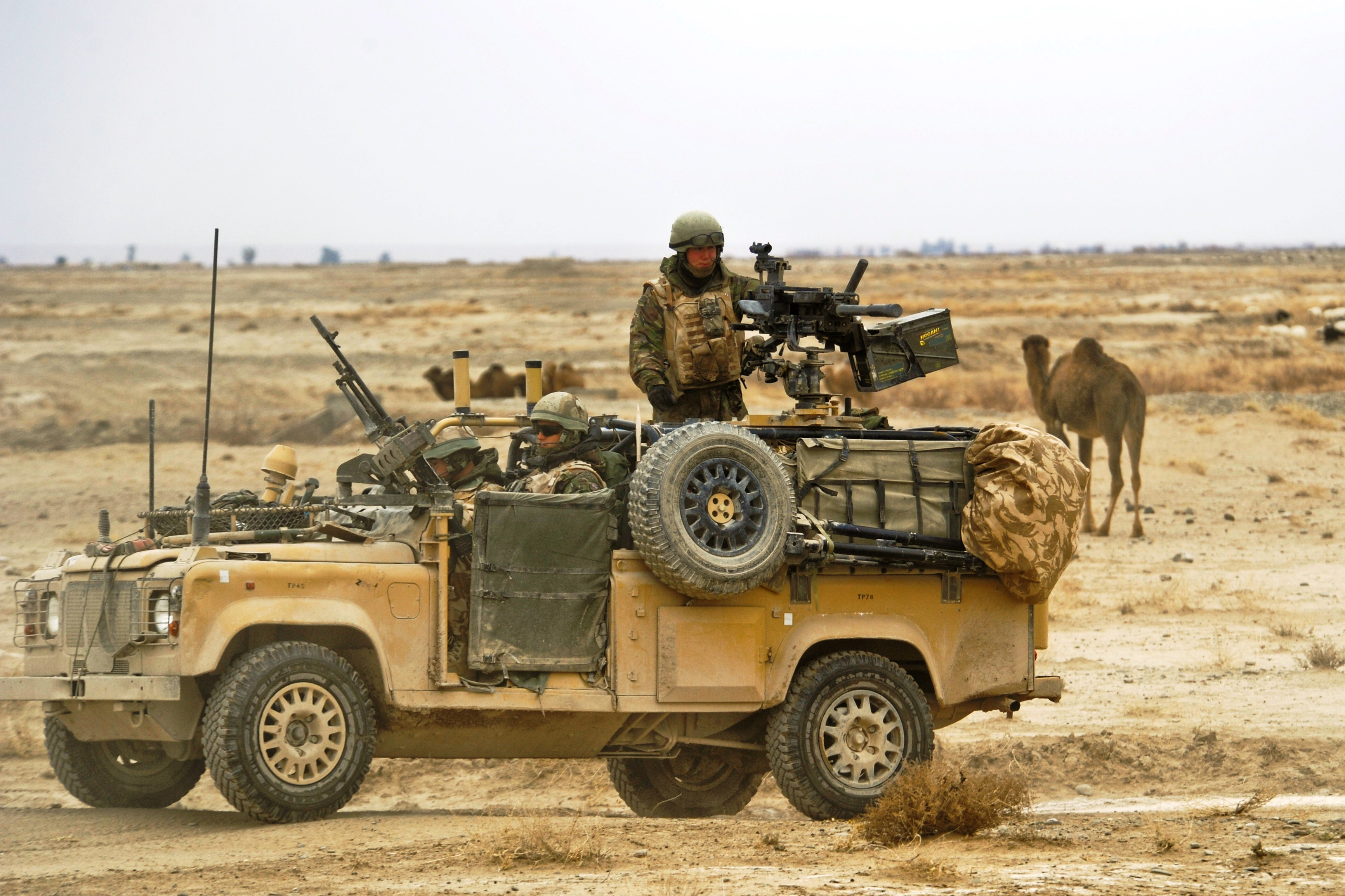 U.K. service members of the Royal Air Force Regiment stopped on a road in a modified Land Rover Defender while conducting a combat mission near Kandahar Airfield, Afghanistan, Jan. 2, 2010.